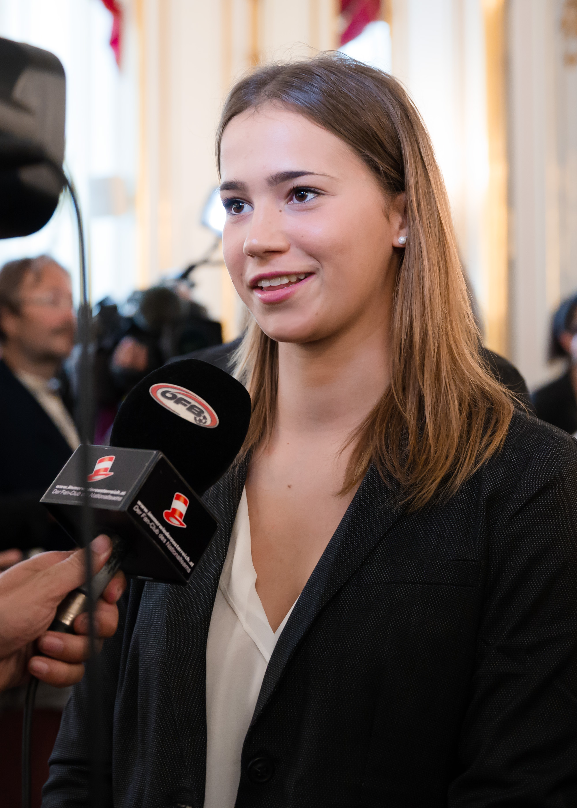 Carolin Größinger at the reception of the Austrian women's national football team for the UEFA Women's Euro 2017 by federal president Alexander Van der Bellen at Hofburg in Vienna, Austria.